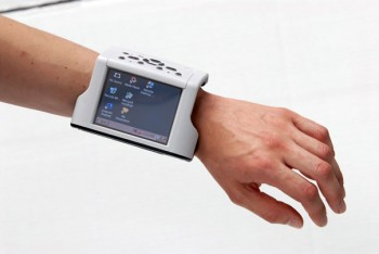 Image of the ZYPAD, rugged wrist wearable computer from Arcom Control Systems